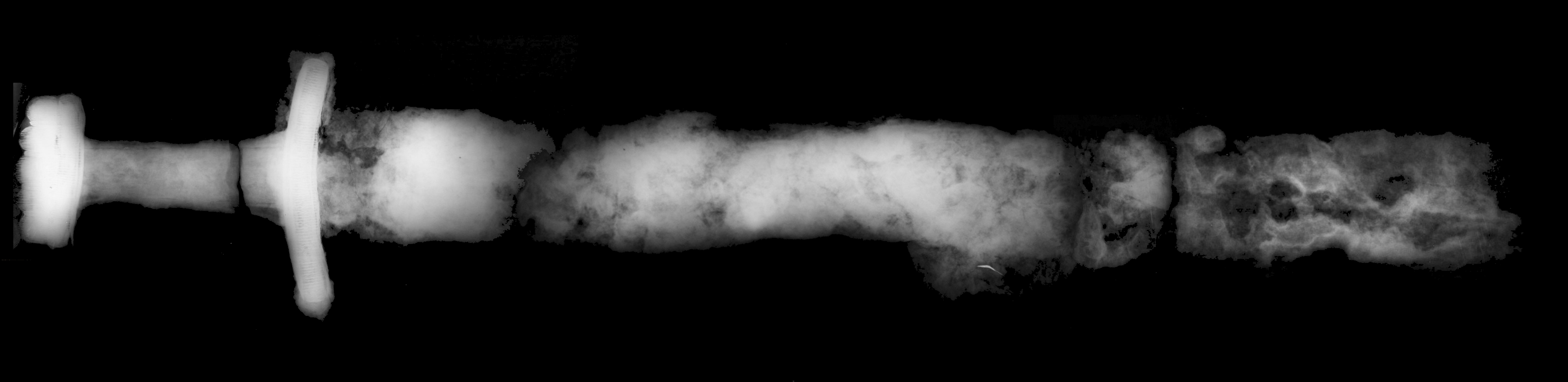 X-ray of the reconstructed sword from the Viking boat burial at Ardnamurchan, by Pieta Greaves of AOC Archaeology.